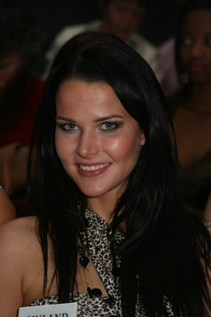 Miss Finland 2008 Linda Wikstedt during Miss World 08 in Johannesburg